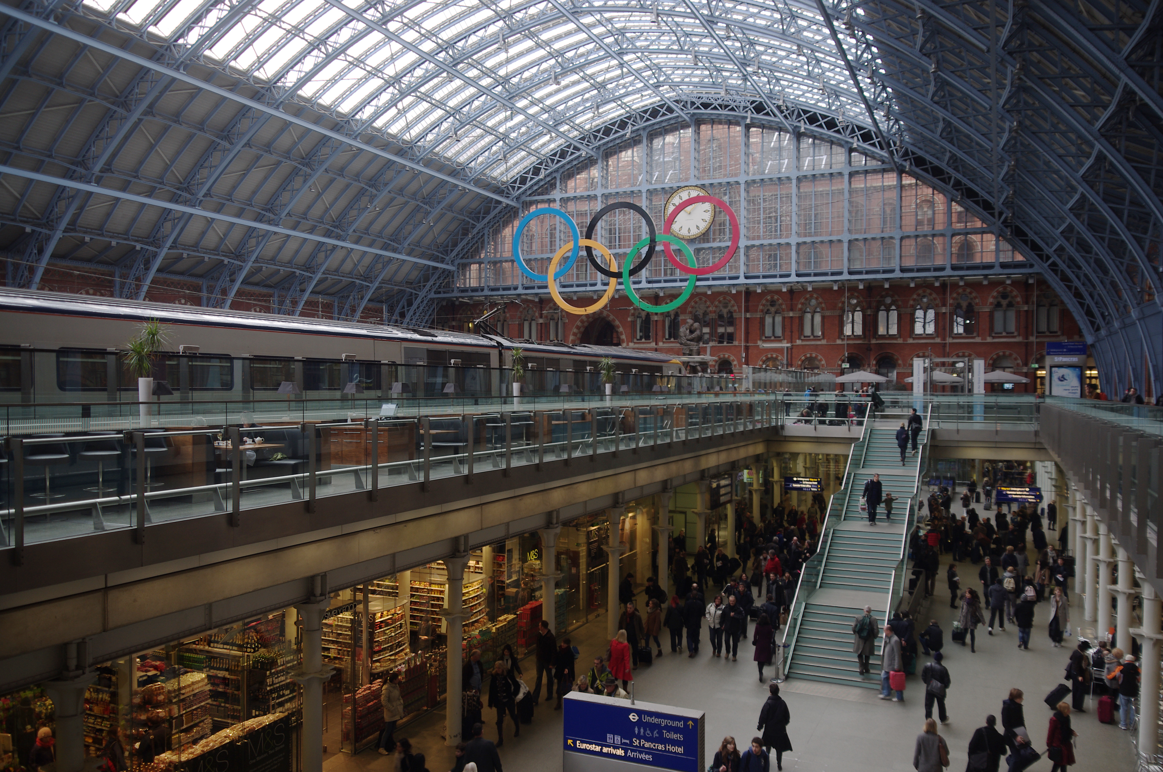 Eurostar units 373213 at London St Pancras railway station, looking over the concourse.